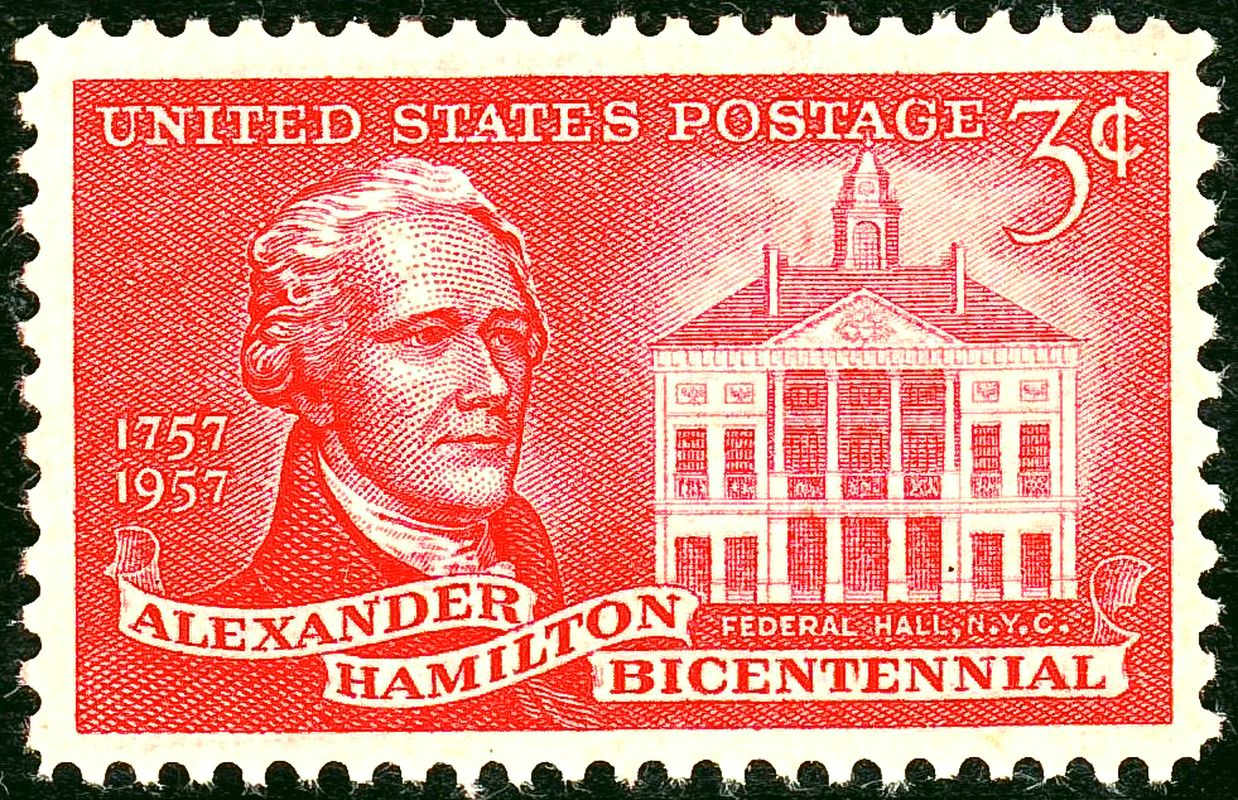 US Postage Stamp, 3c, 1957 issue, Alexander Hamilton